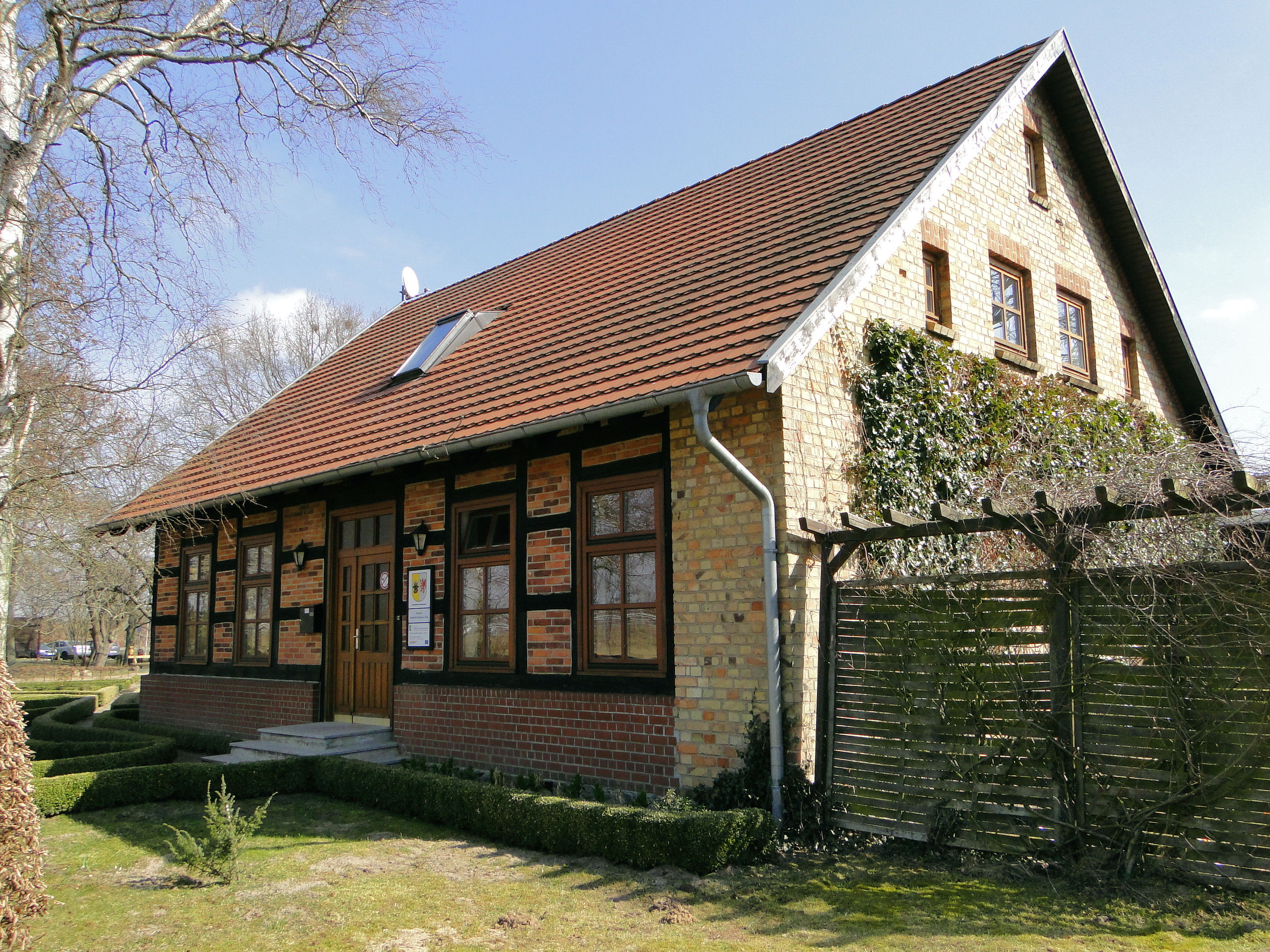 Administration building of Nature park Nossentiner/Schwinzer Heide in Karow, district Parchim, Mecklenburg-Vorpommern, Germany